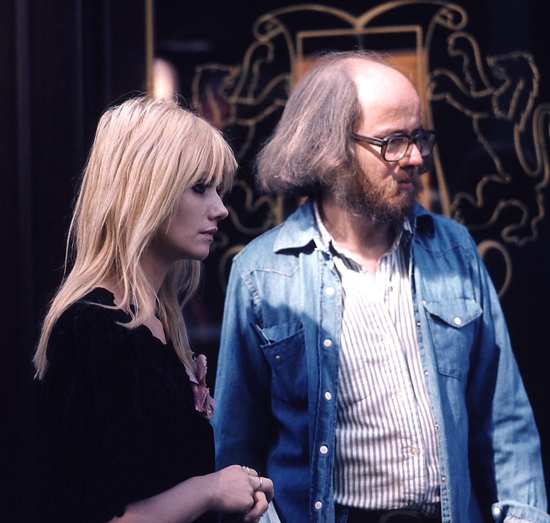 Jean-Pierre Blanc 1975 in Paris with Miou-Miou